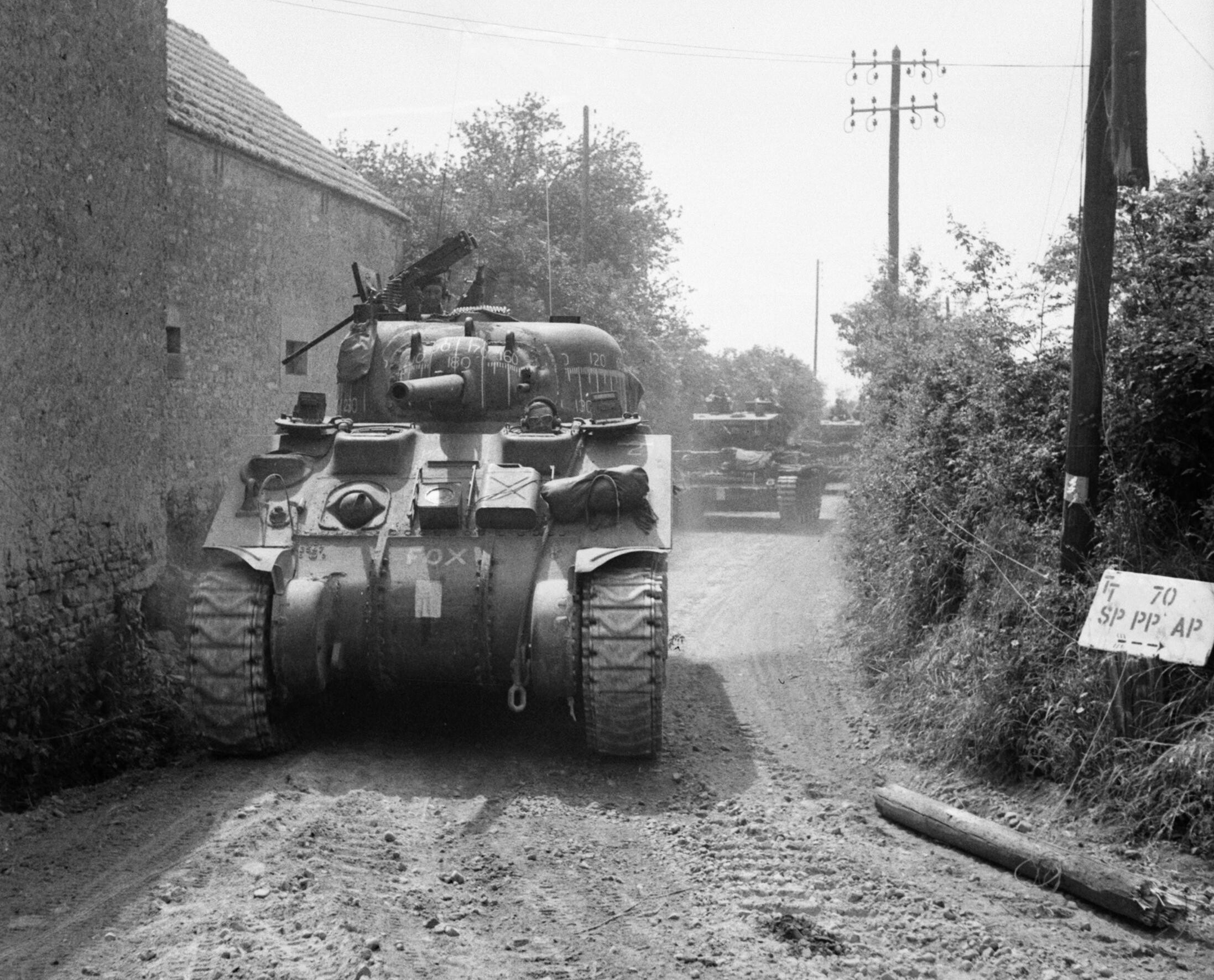 THE BRITISH ARMY IN NORMANDY 1944. Sherman and Cromwell tanks of the Royal Marines Armoured Support Group near Tilly-sur-Seulles.